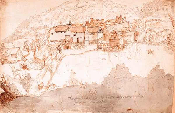 Drawing by the English writer and diarist John Evelyn of his family's home, Wotton House, near Guildford, Surrey, dated 1640. Evelyn was 20 years old when he made the drawing. Courtesy of the British Library, London.